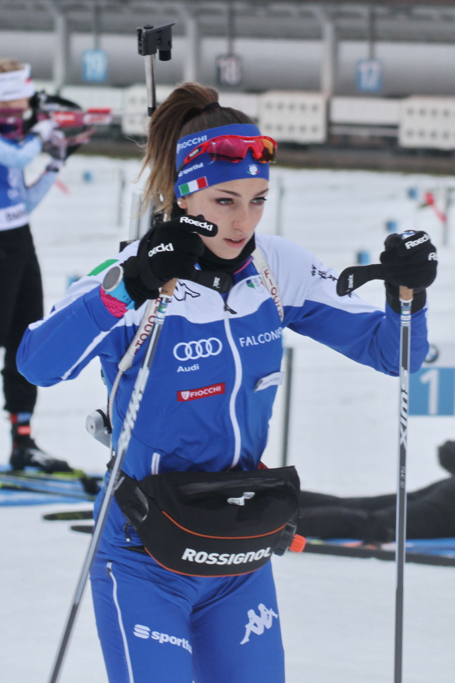 2018 Oberhof Biathlon World Cup - Pursuit Women